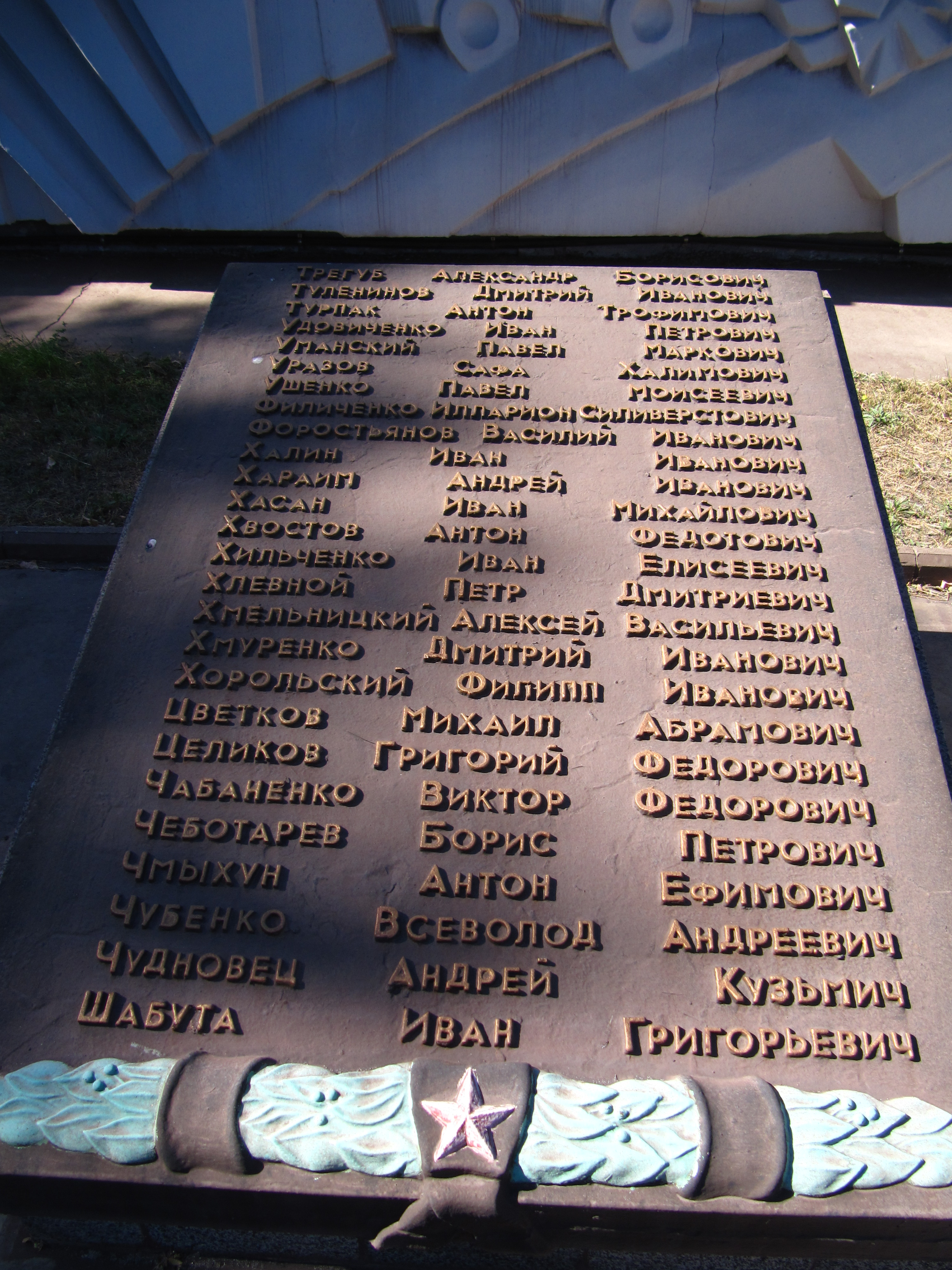 Complex of monuments for employees of Krivorizhstal, that died in Great Patriotic war. Kryvyi Rih, Ukraine